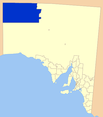 Map of South Australia showing the location of the APY Local Government Area. A modification of GDFL map by Astrokey44; found here: File:SA_LGA_blank.png